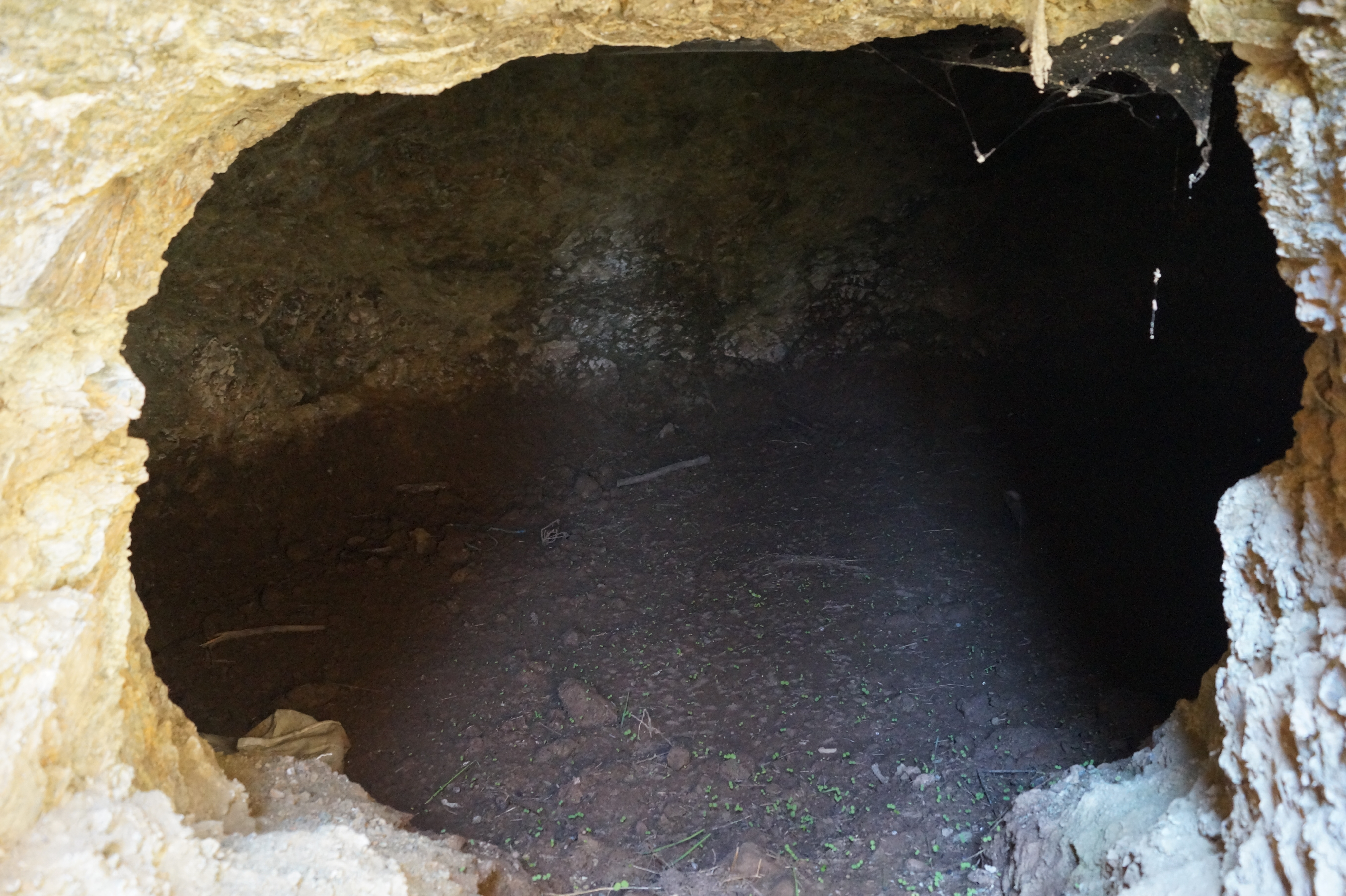 Palea Epidavros, Argolis, Greece: Mycenaean Cemetery of Paleo Epidavros, chamber of chamber tomb which is named on this plan as tomb G.